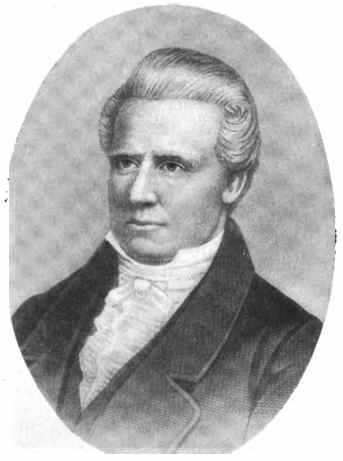 James Prendergast - Founder of Jamestown NY. From page 8.